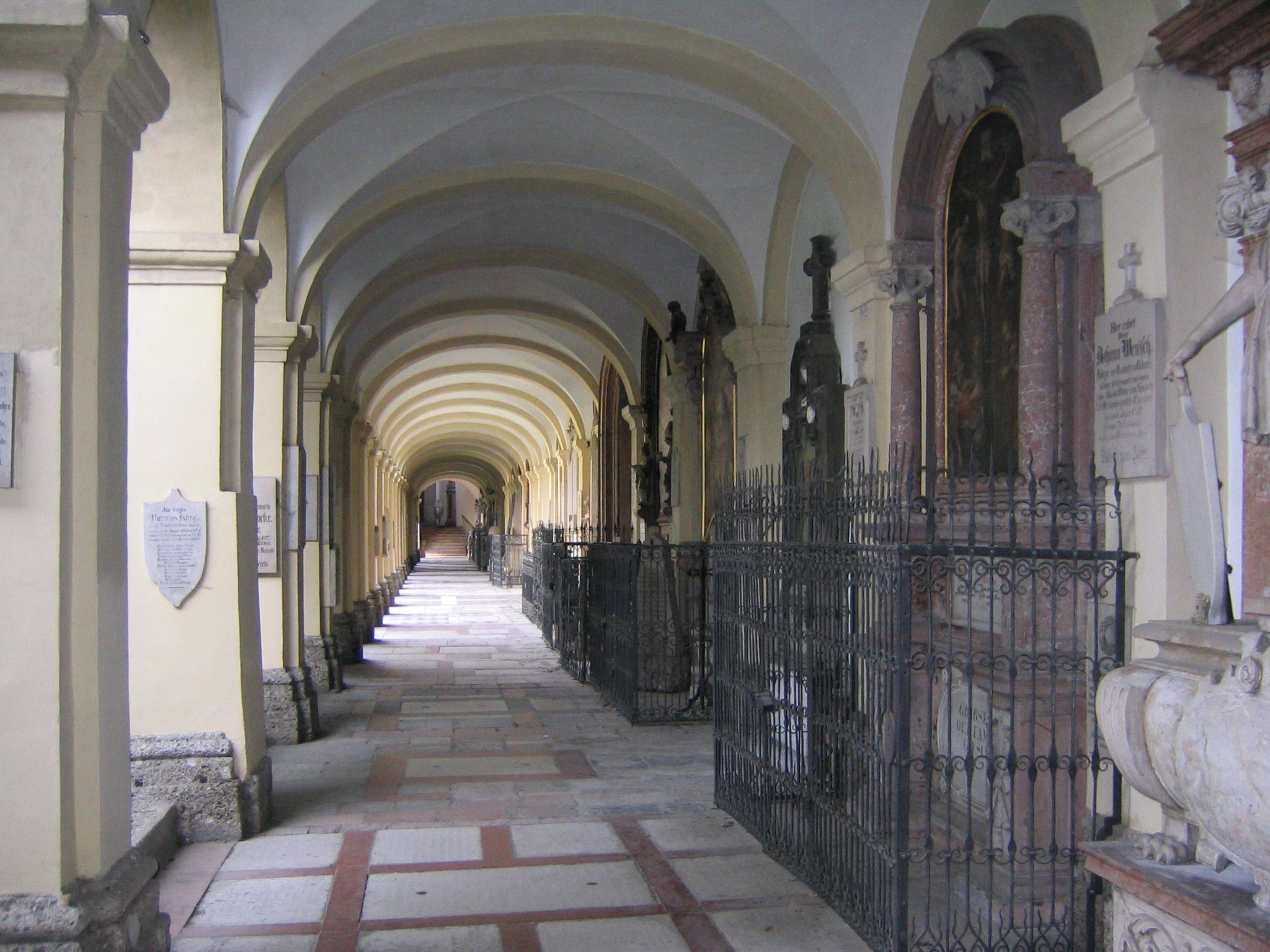 Sebastiansfriedhof (cemetery), Salzburg